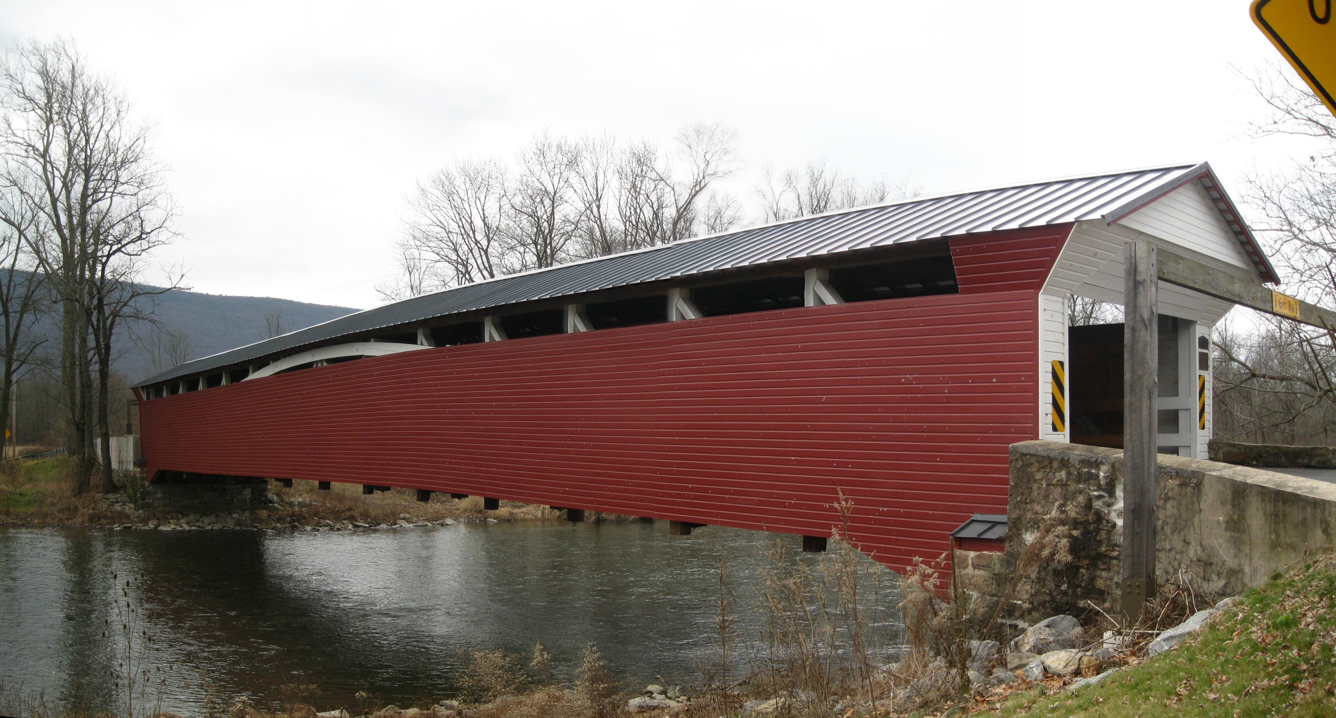 North portal and east side Millmont Red Bridge, a Burr arch covered bridge in Hartley Township, Union County, Pennsylvania. It was constructed in 1855 and crosses Penns Creek; listed on the National Register of Historic Places